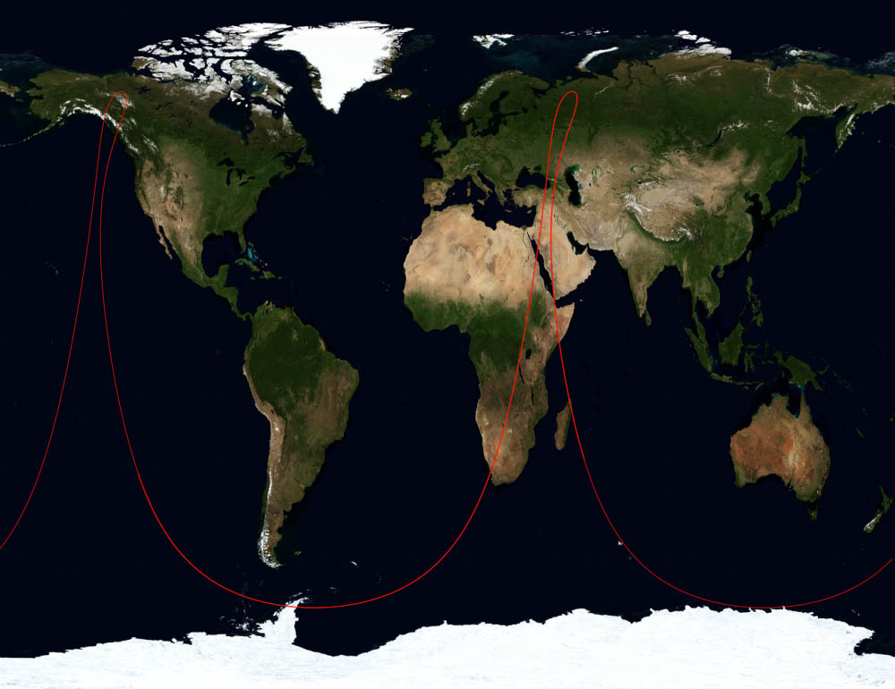 Ground track of Russian satellite Kosmos 2446. Plotted against a PD NASA map using GPL gpredict software.